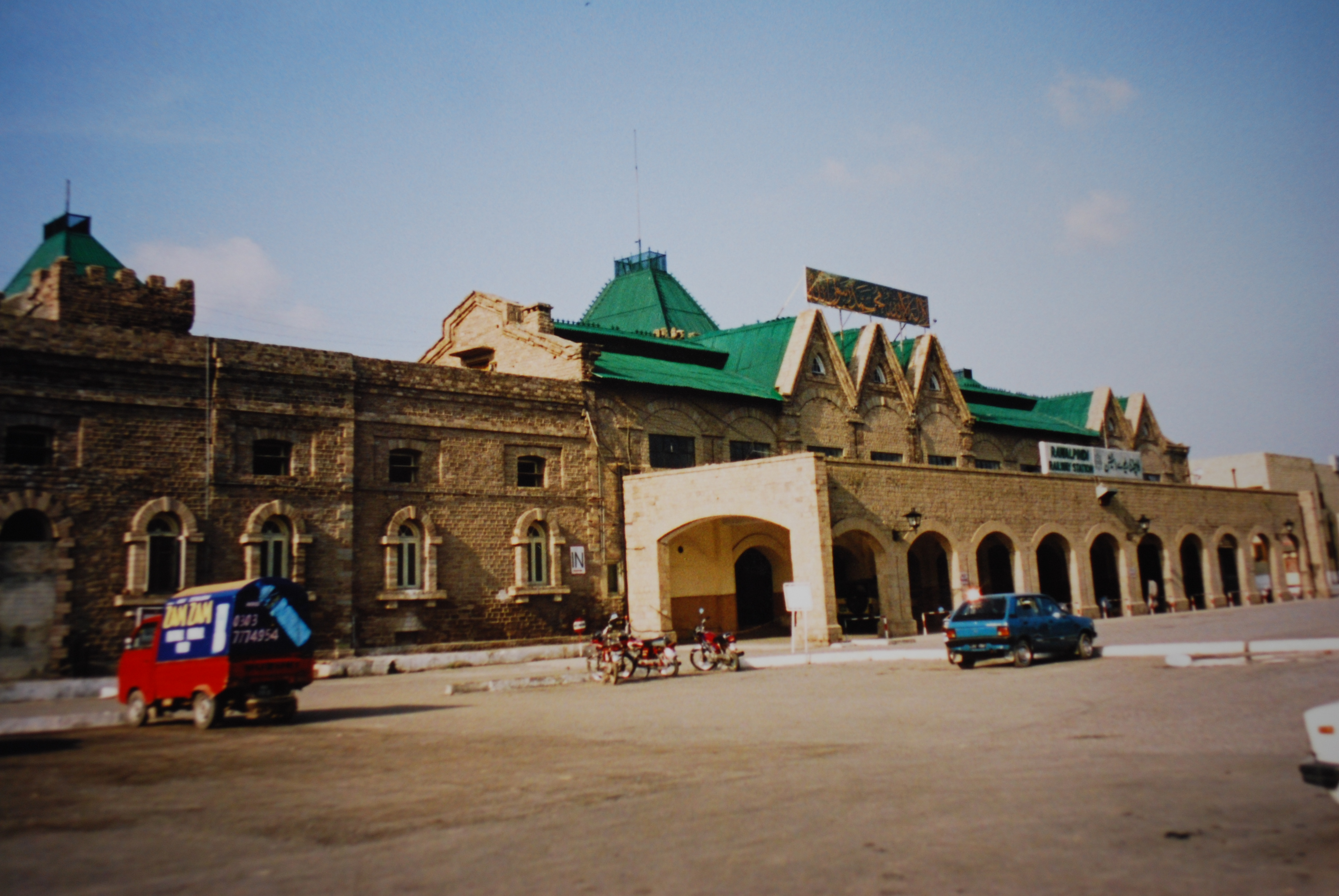 Rawalpindi Railway Station,2001,Punjab,Pakistan